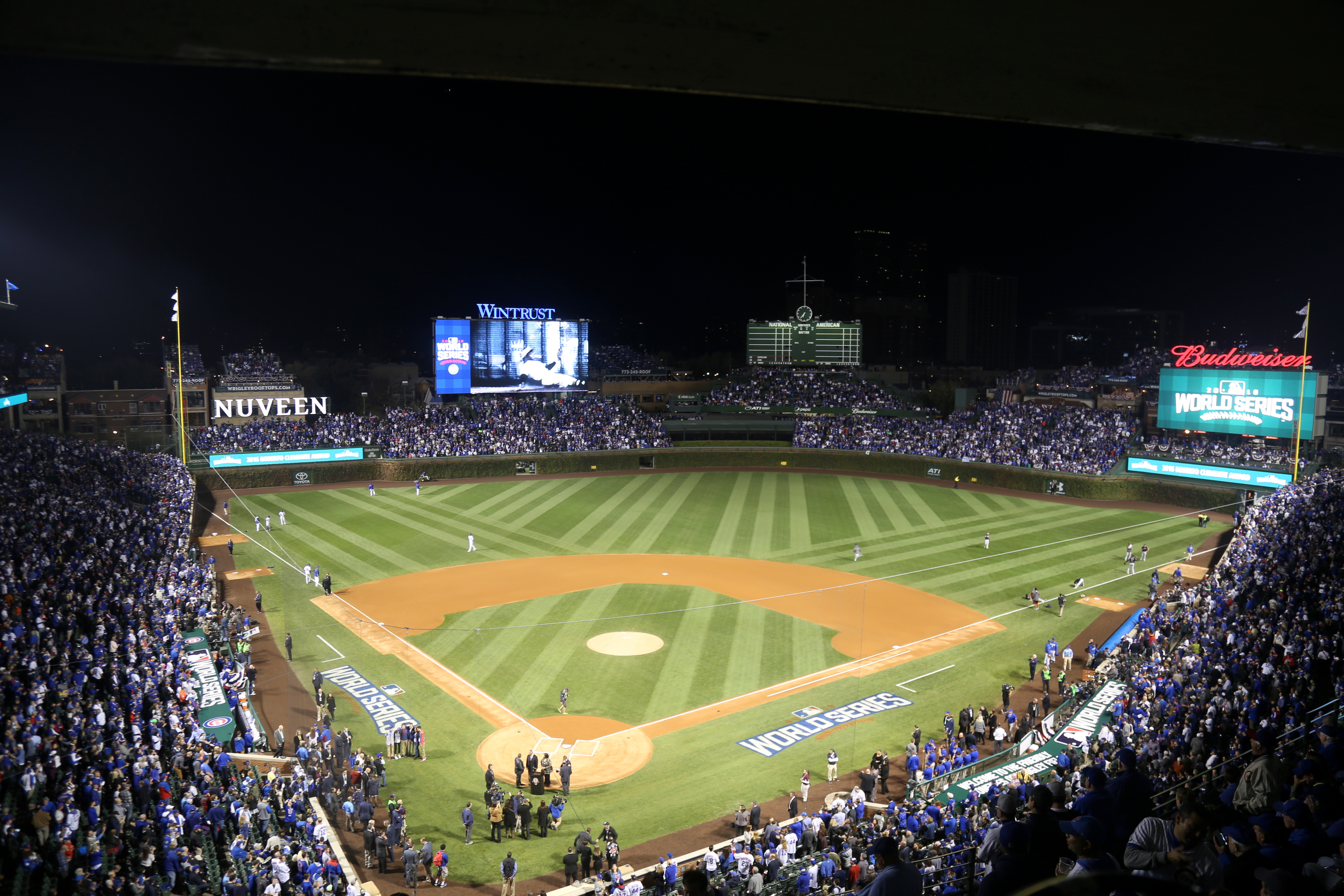 Wrigley Field is ready for World Series Game 3.